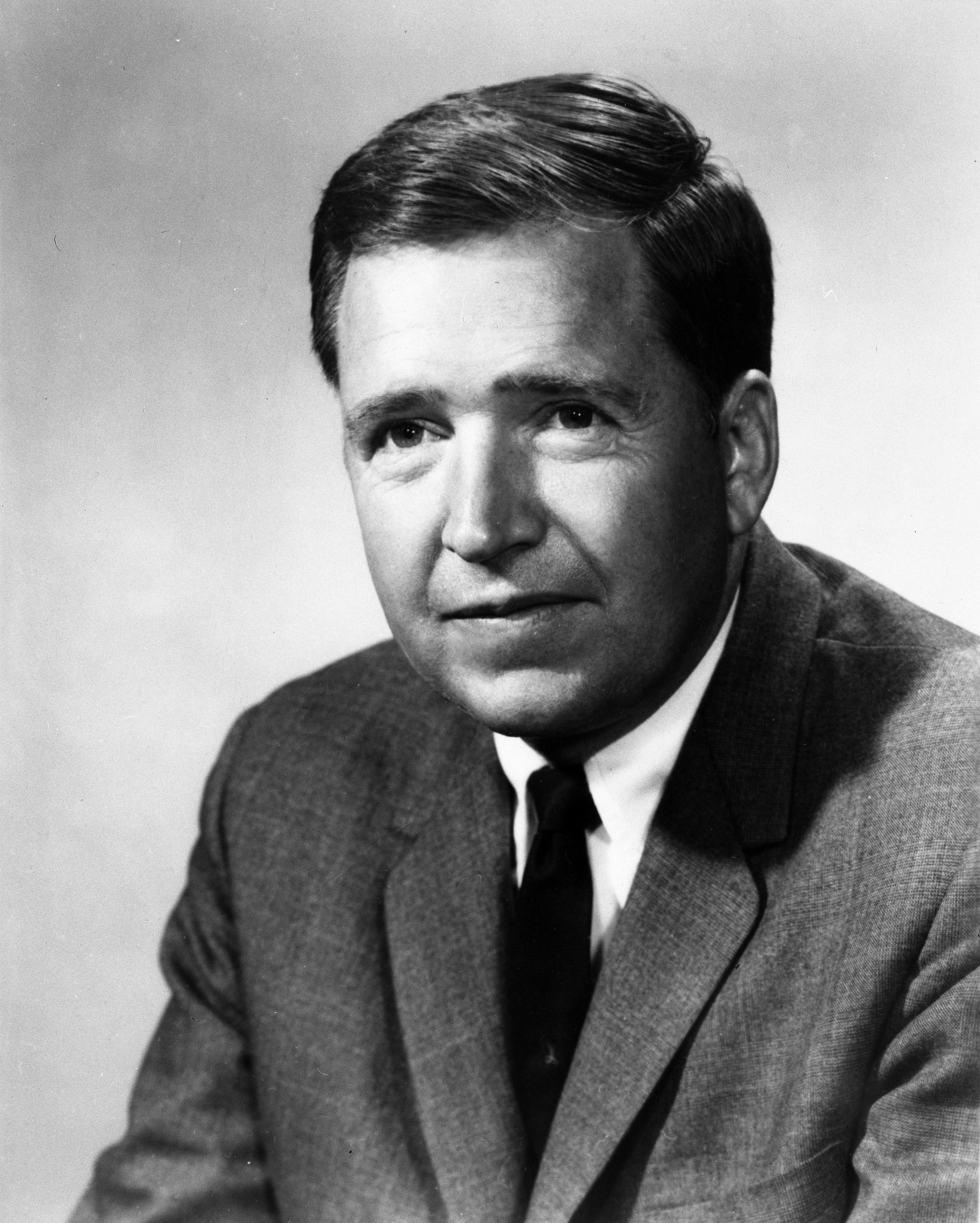 Hoyt Patrick Taylor, Sr., President of NC Senate, NC Lt Gov, 1949-1953. From the General Negative Collection, State Archives of North Carolina.